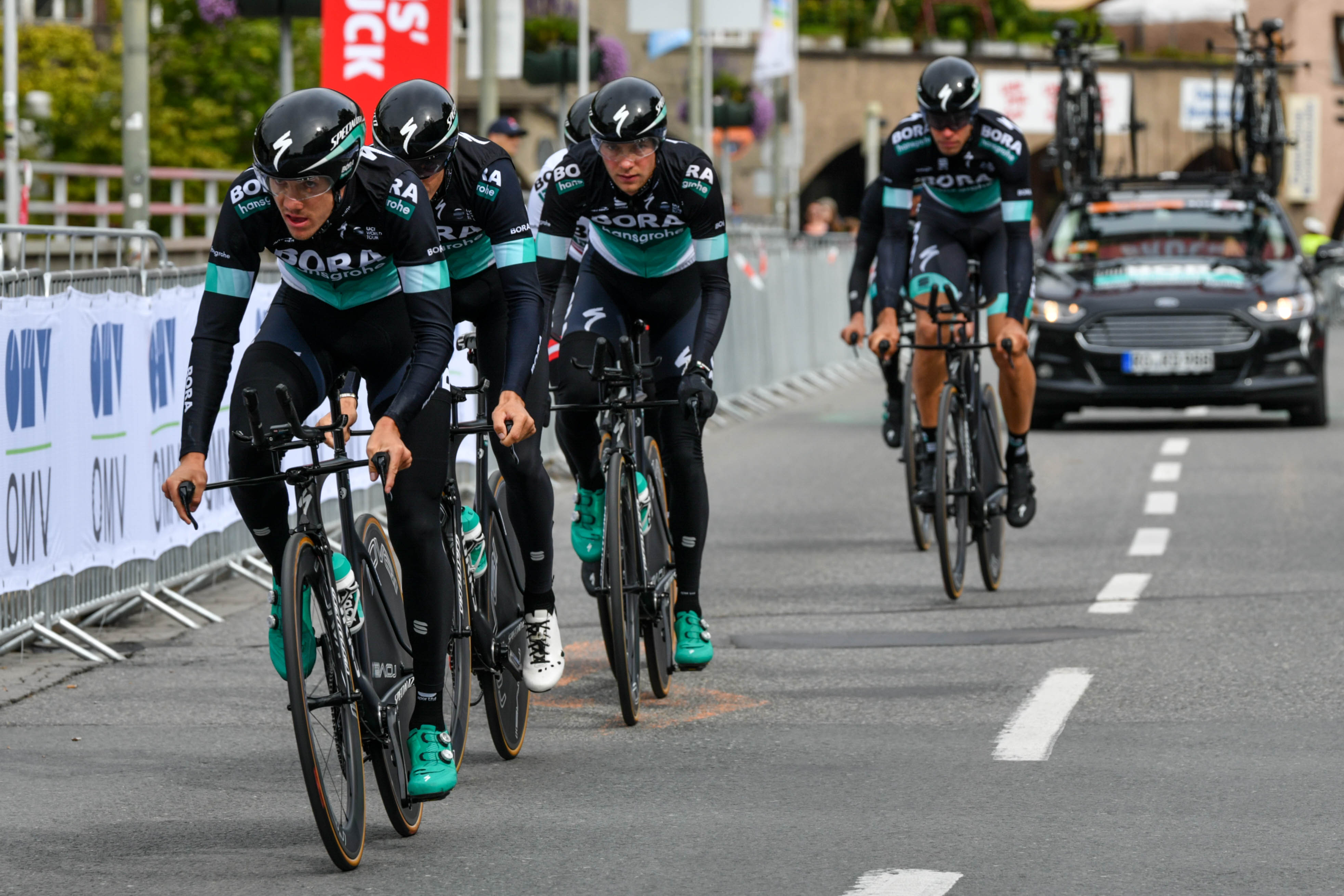 2018 UCI Road World Championships Innsbruck/Tirol Training Team Time Trial. Picture shows: Team Bora hansgrohe